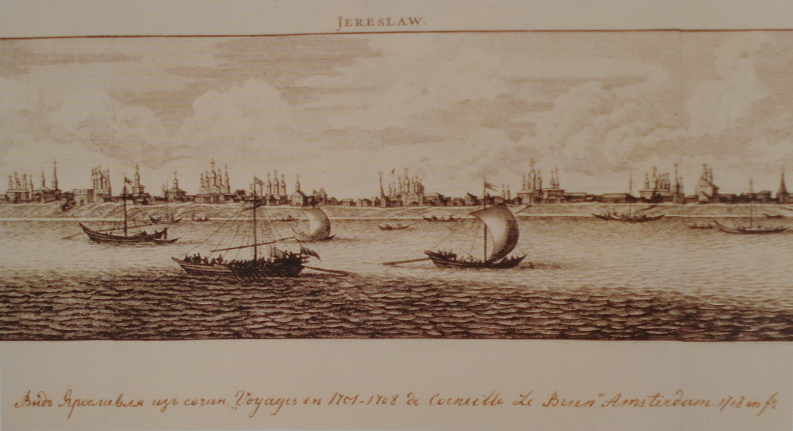 Yhe view of Yaroslavl, from the writing "Voyages en 1701-1708 de Cornelle Le Brun". Amdterdam. 1718